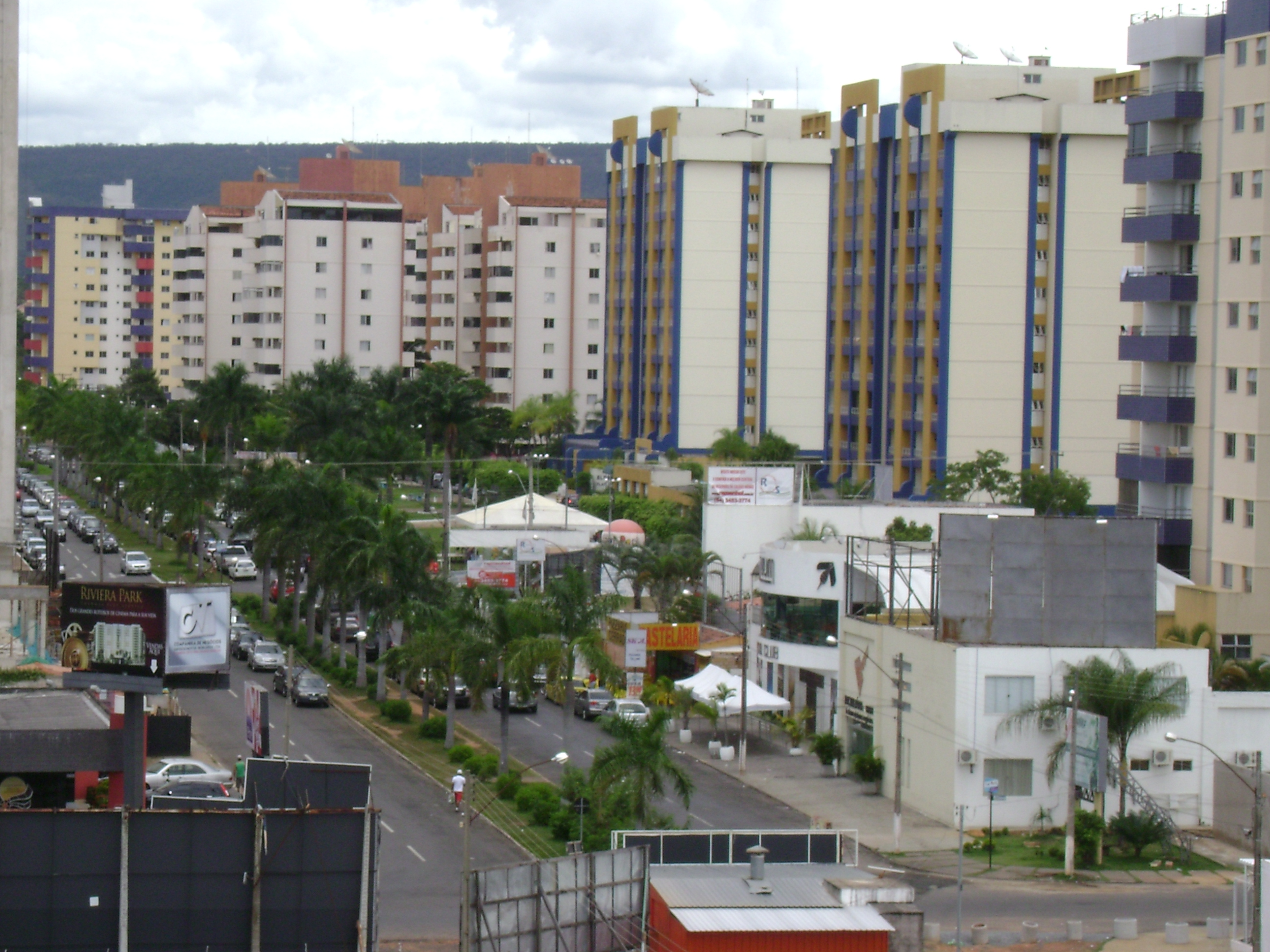 Sight of Caldas Novas, in Goiás, Brazil.